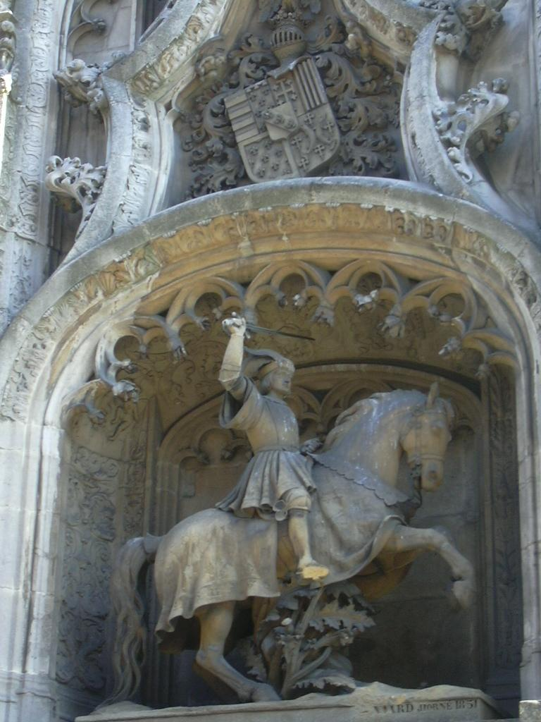 This picture shows Antoine, Duke of Lorraine.